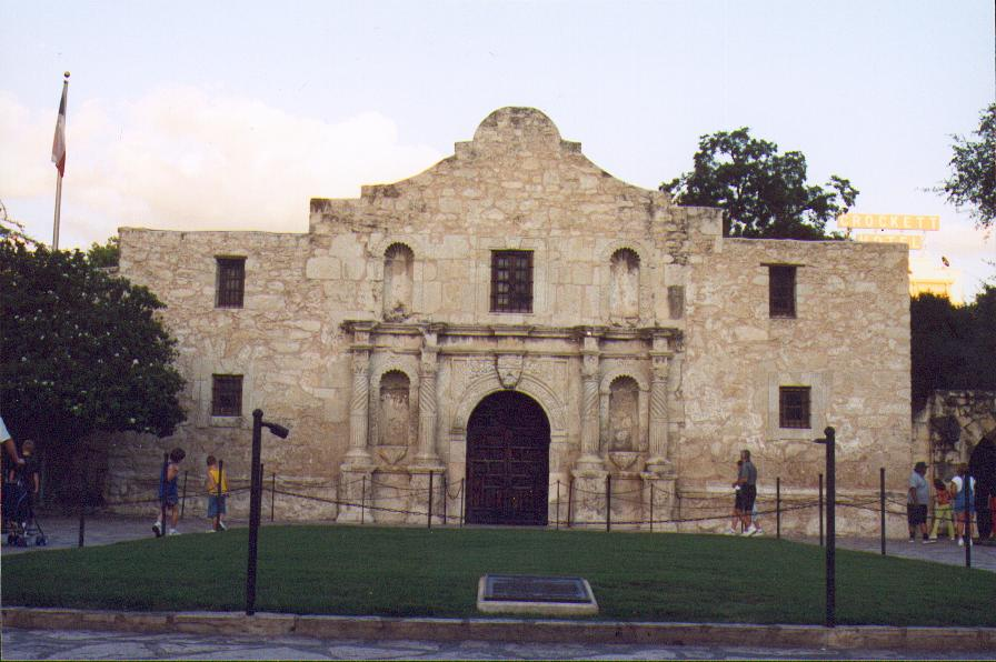 The Alamo Mission in San Antonio located at 29.4257° -98.4863°, San Antonio, Texas, United States. The structure was added to the National Register of Historic Places in 1966.